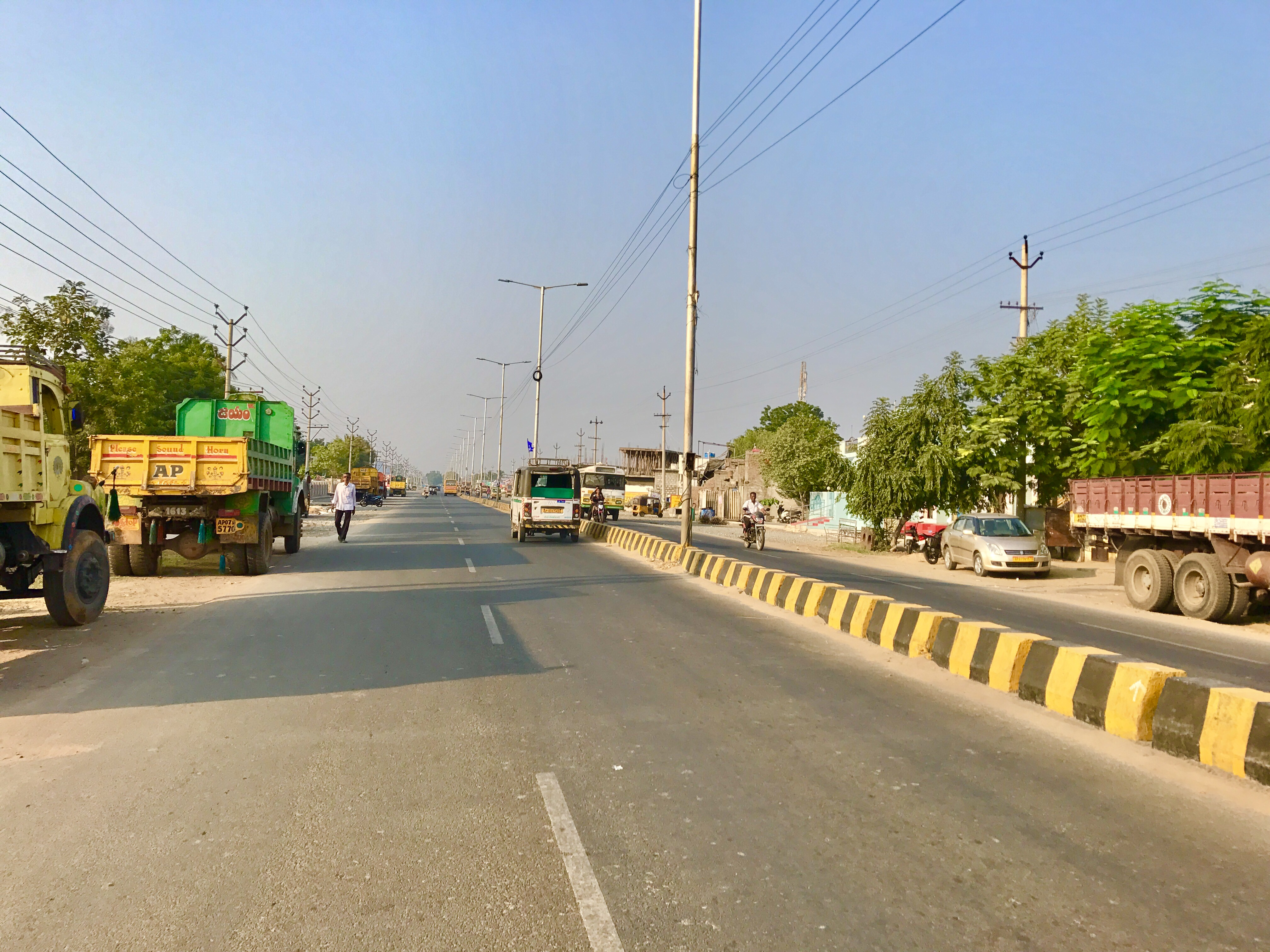 Gorantla Main Road ( A section of Guntur - Amaravathi Road )